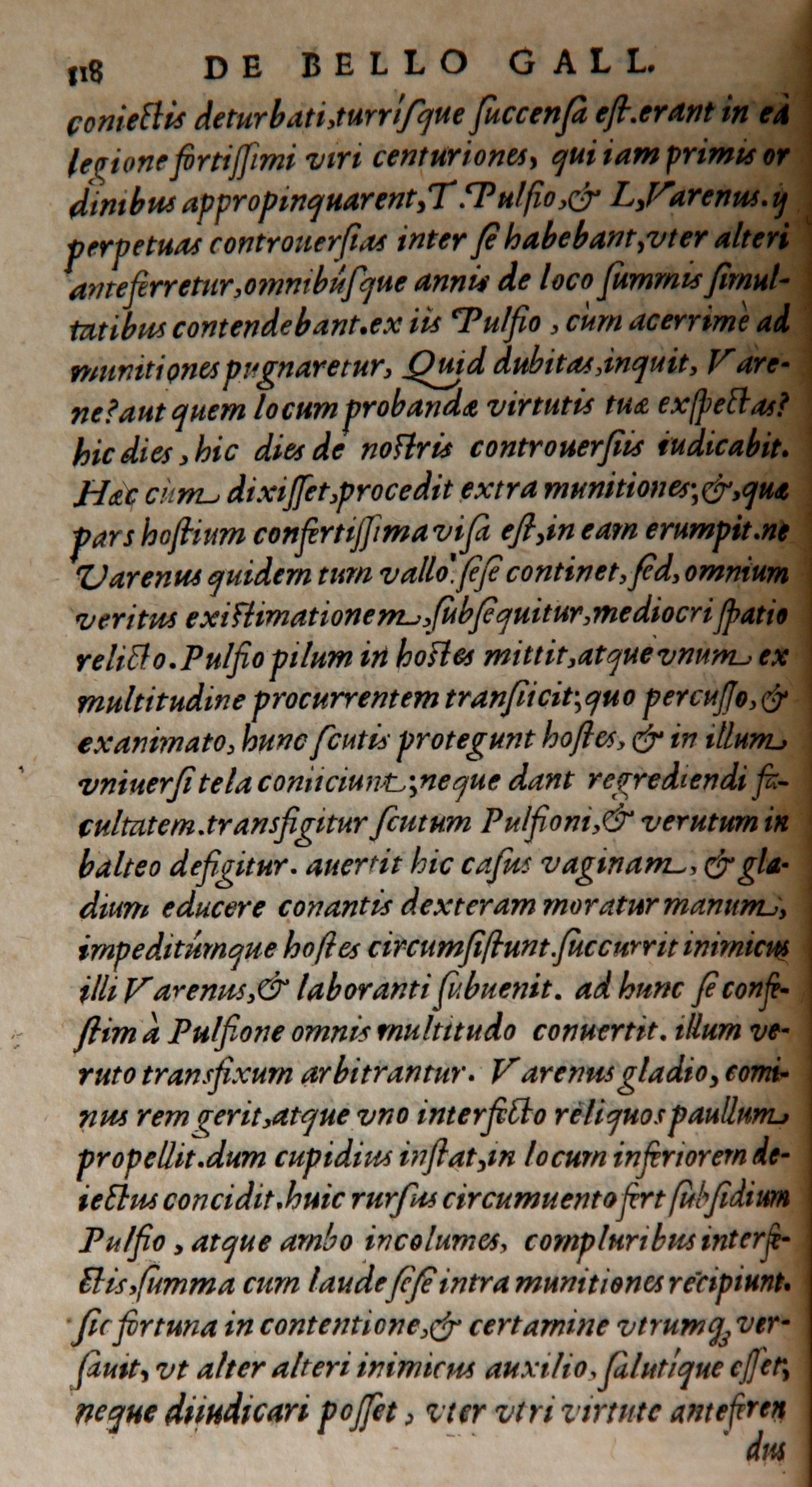 Page 118 of Julius Caesar's Commentarii de Bello Gallico. A photograph by Nikodem Miranowicz. A book from his private collection.